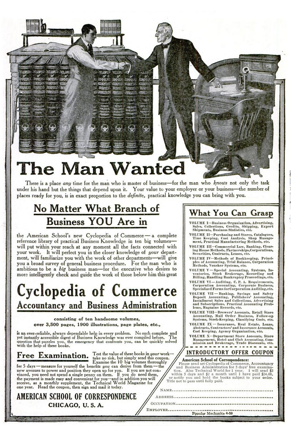 Cyclopedia of Commerce Advertisement, 1910